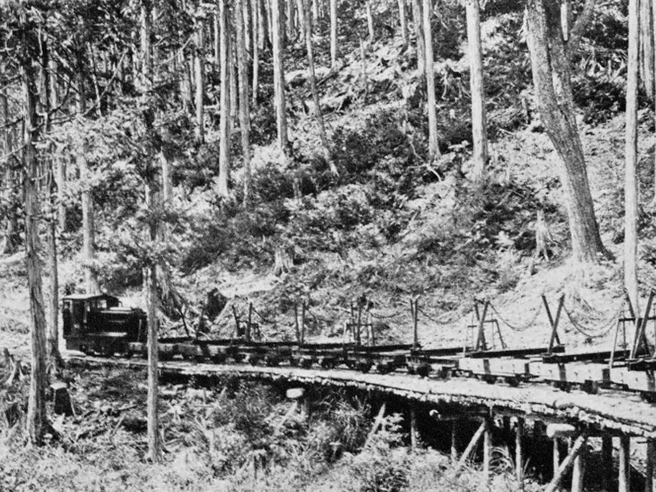 Kiso Forest Railway Ogawa Line.